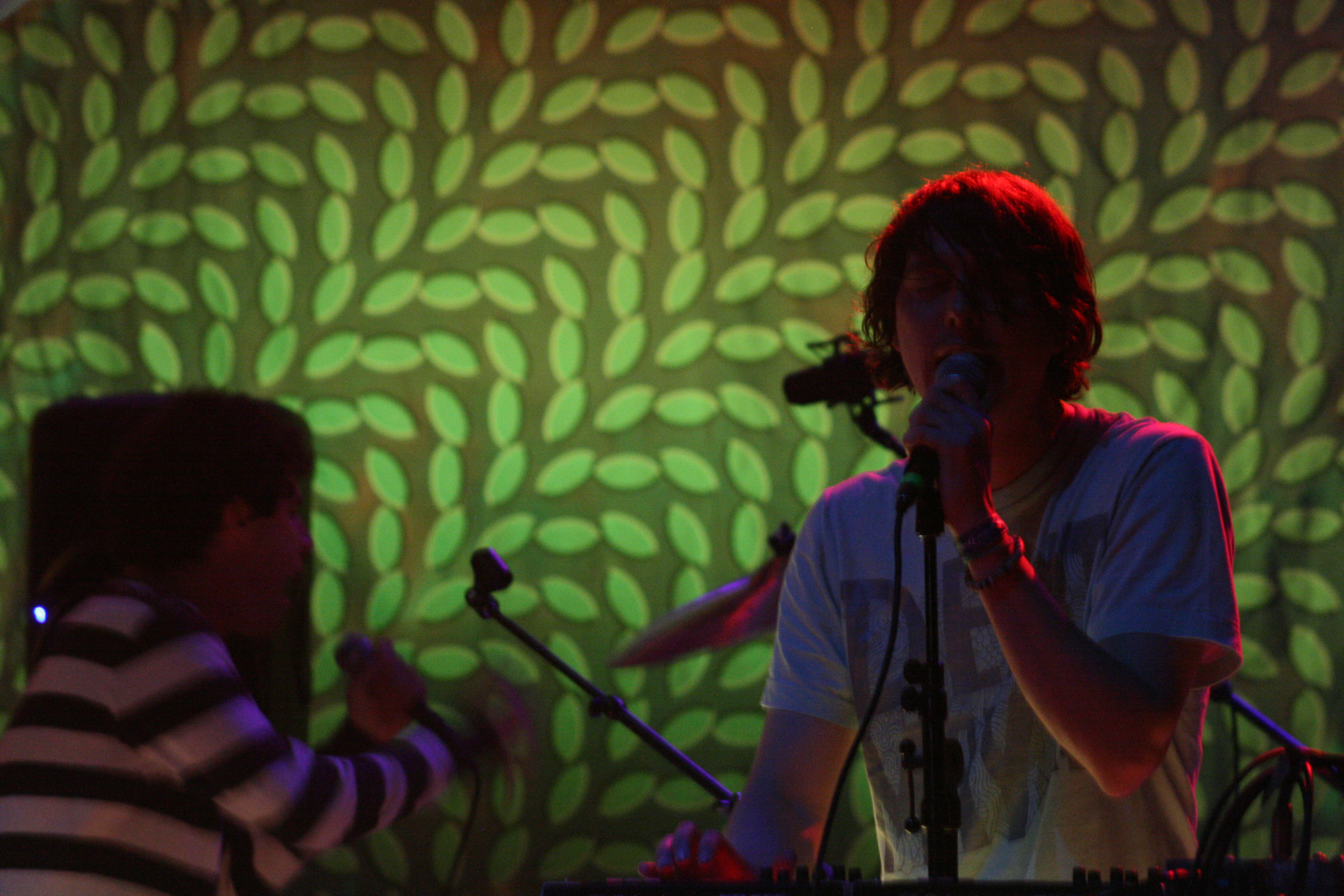 Animal Collective ::: Boulder Theater ::: 06.02.09